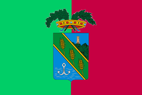 Flag of Latina Province, Italy